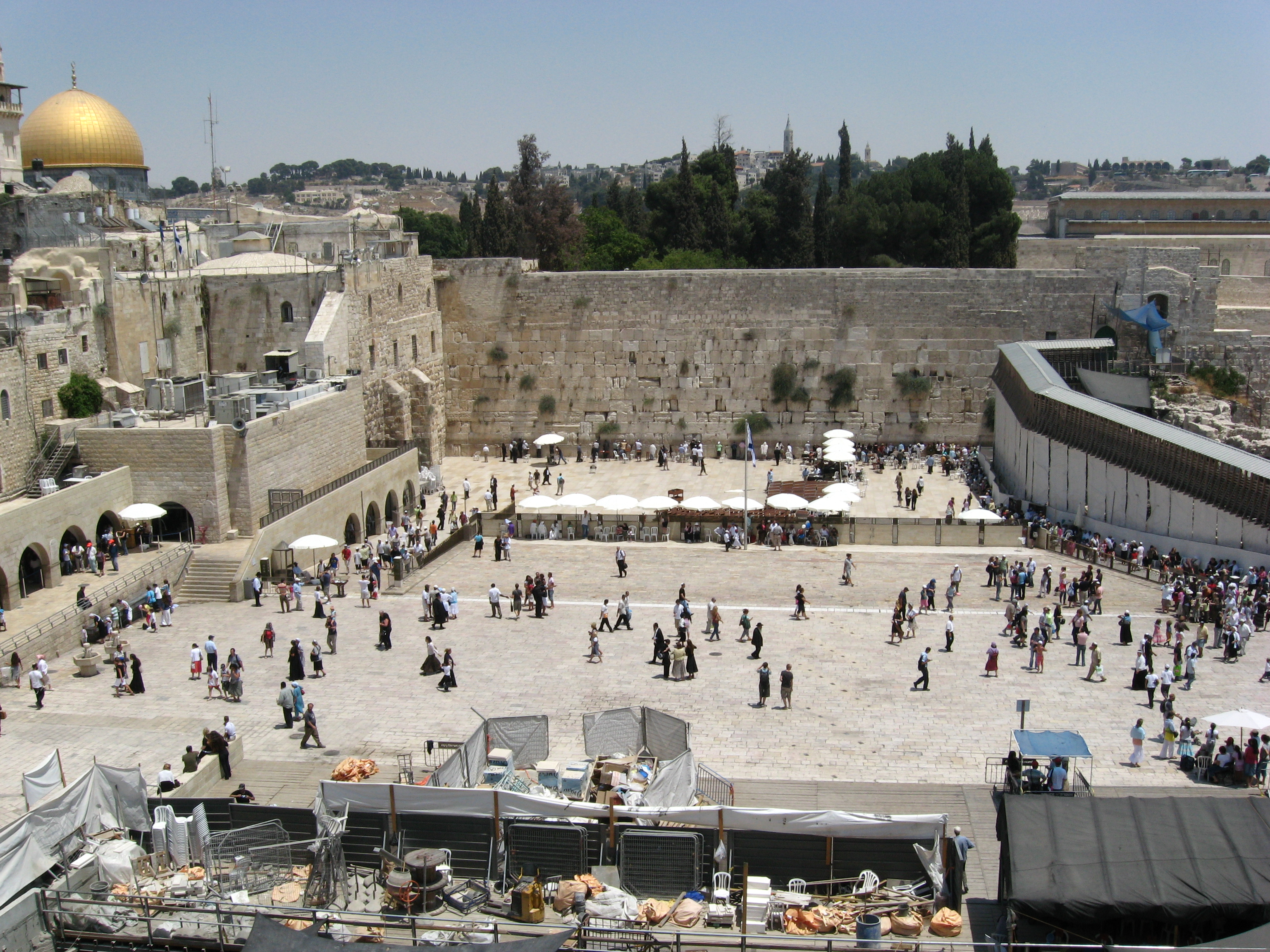 View on the wailing wall, in the upper left corner you can see the Dome of the Rock.